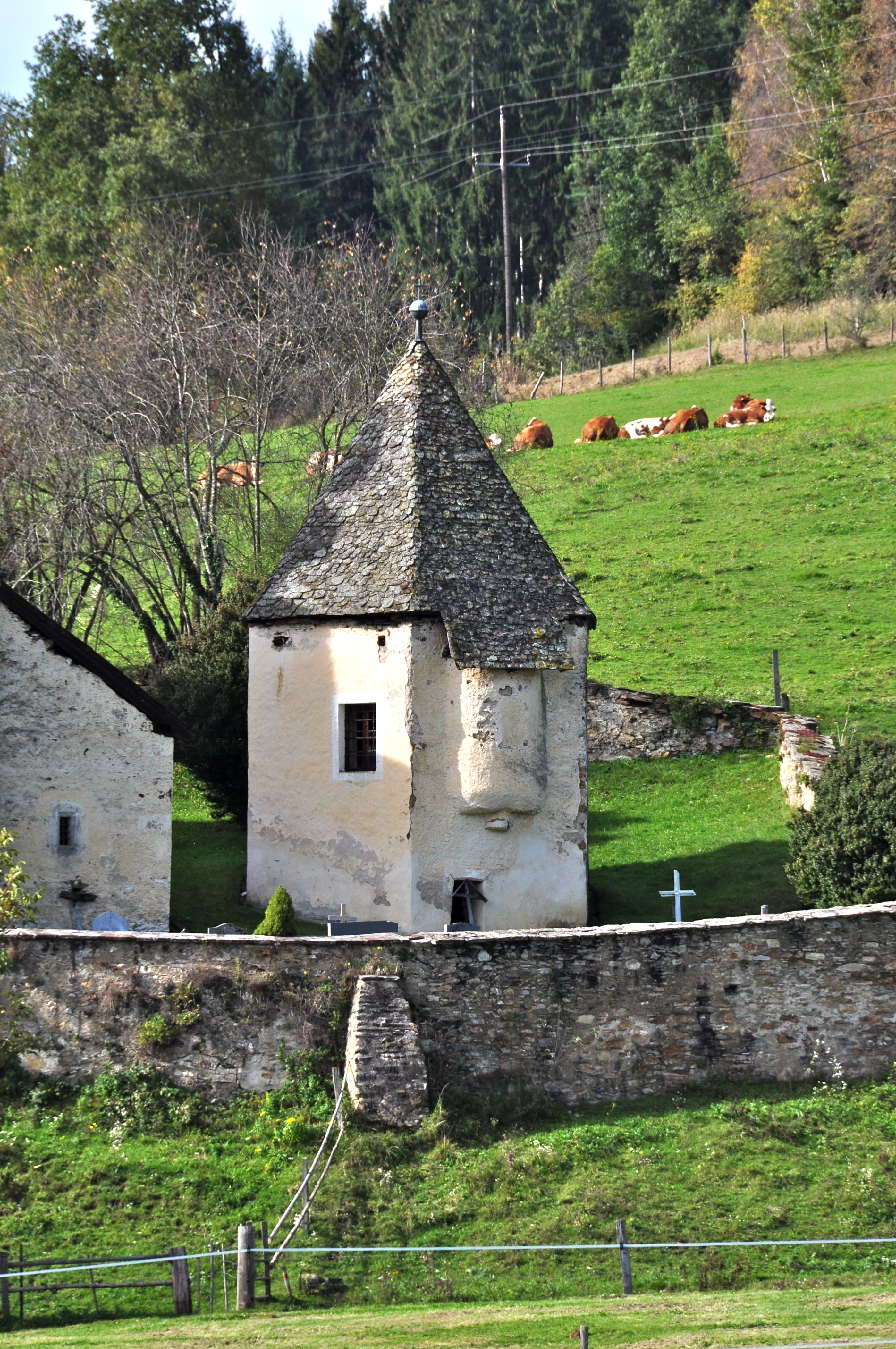 Charnel house on the cemetery of Treffling, municipality Mölbling, district St. Veit an der Glan, Carinthia / Austria / EU